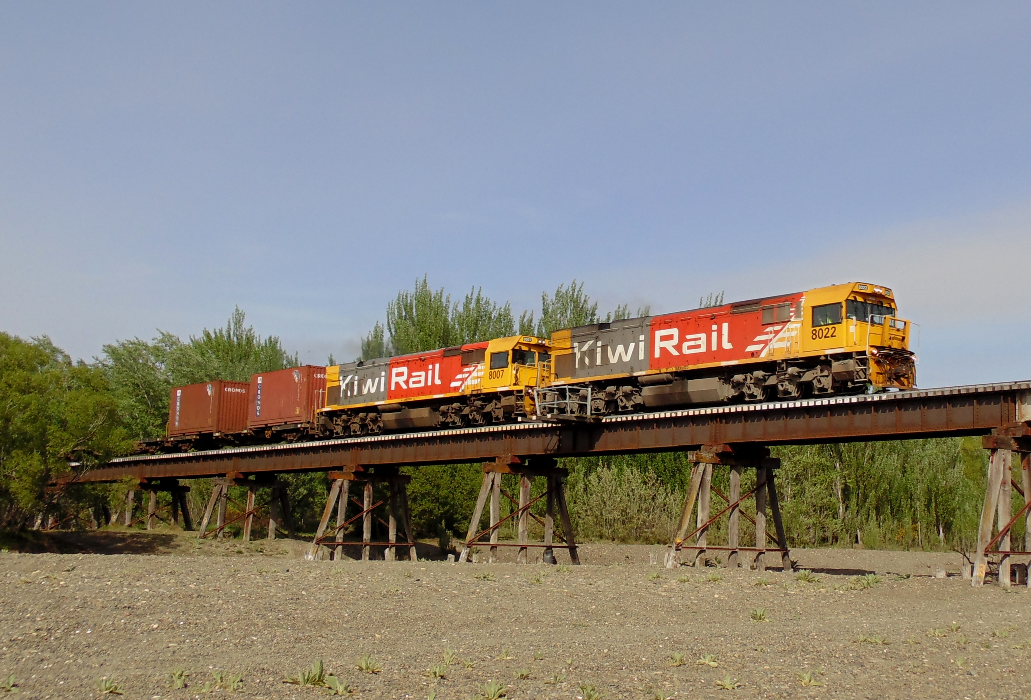 TrainboyMBH